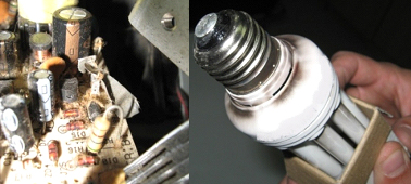 Ensayos EN50550